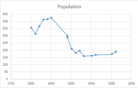 A scatter graph showing how the population of Great Henny, Essex, has changed using census data from 1861-2011.